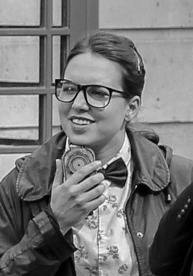 Actress Ingrid Oliver, in costume as Osgood, during filming of Doctor Who.